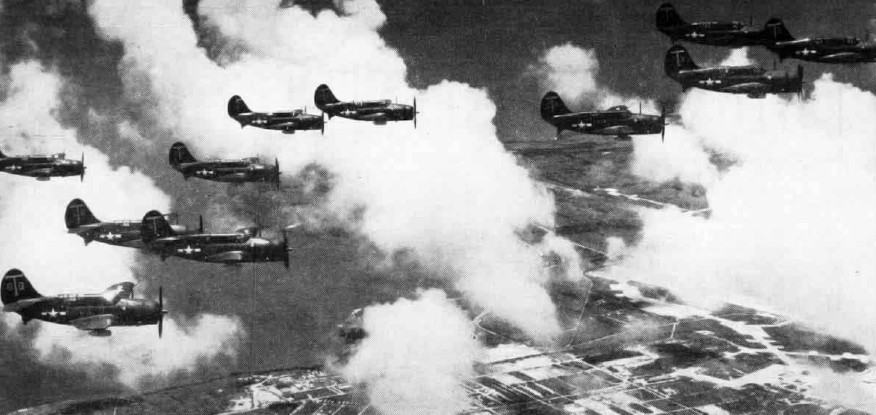 Eleven Curtiss SB2C-5 Helldiver dive bombers of U.S. Navy bombing squadron VB-4 Tophatters over Tinian island, Marianas, in 1947. VB-4 was deployed as part of Carrier Air Group 4 (CVG-4) aboard the aircraft carrier USS Tarawa (CV-40) to the Western Pacific from 1 August 1946 to 29 April 1947.